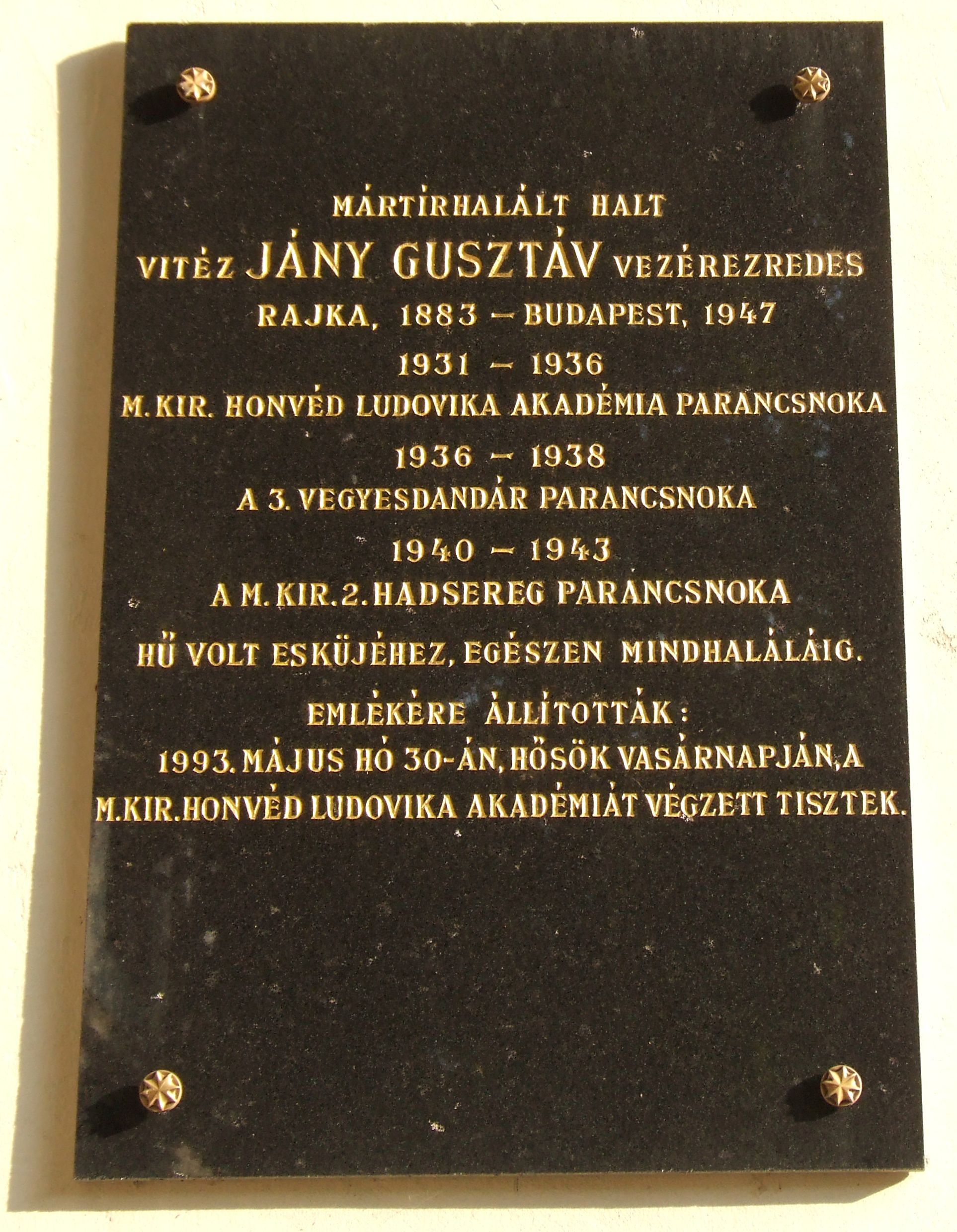 Gusztáv Jány commemorative plaque in Budapest District I, Tóth Árpád Alley No 40 (Museum of Military History)